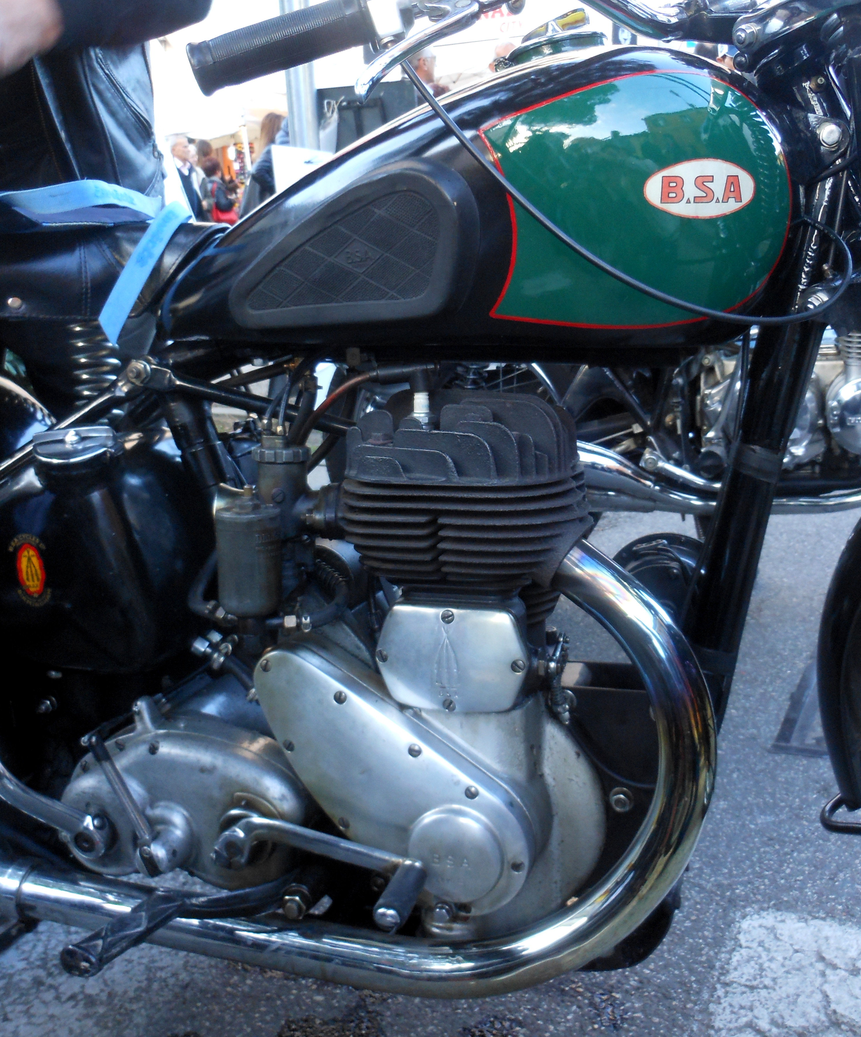 A BSA M20 500 in Rimini